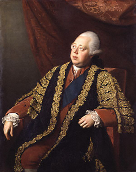 Frederick North, second earl of Guildford [Lord North], prime minister of the United Kingdom, 1770-82 Portrait wearing the Chancellor's gown and riband of the garter